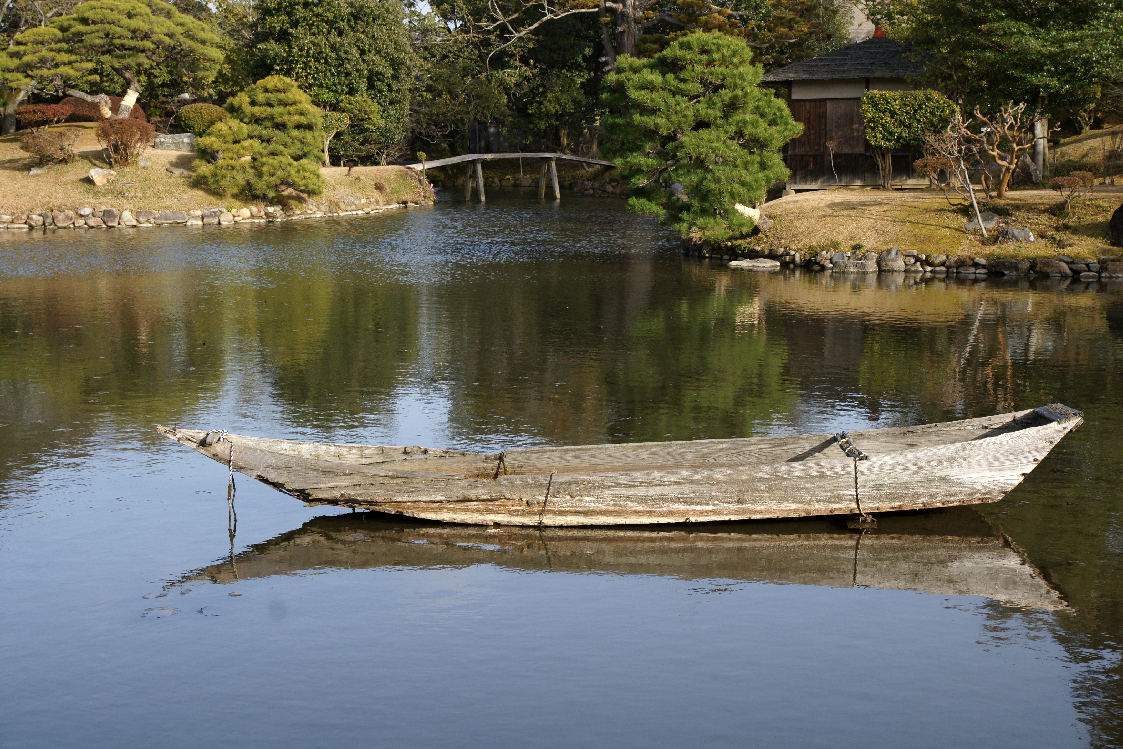 Shurakuen in Tsuyama, Okayama prefecture, Japan.